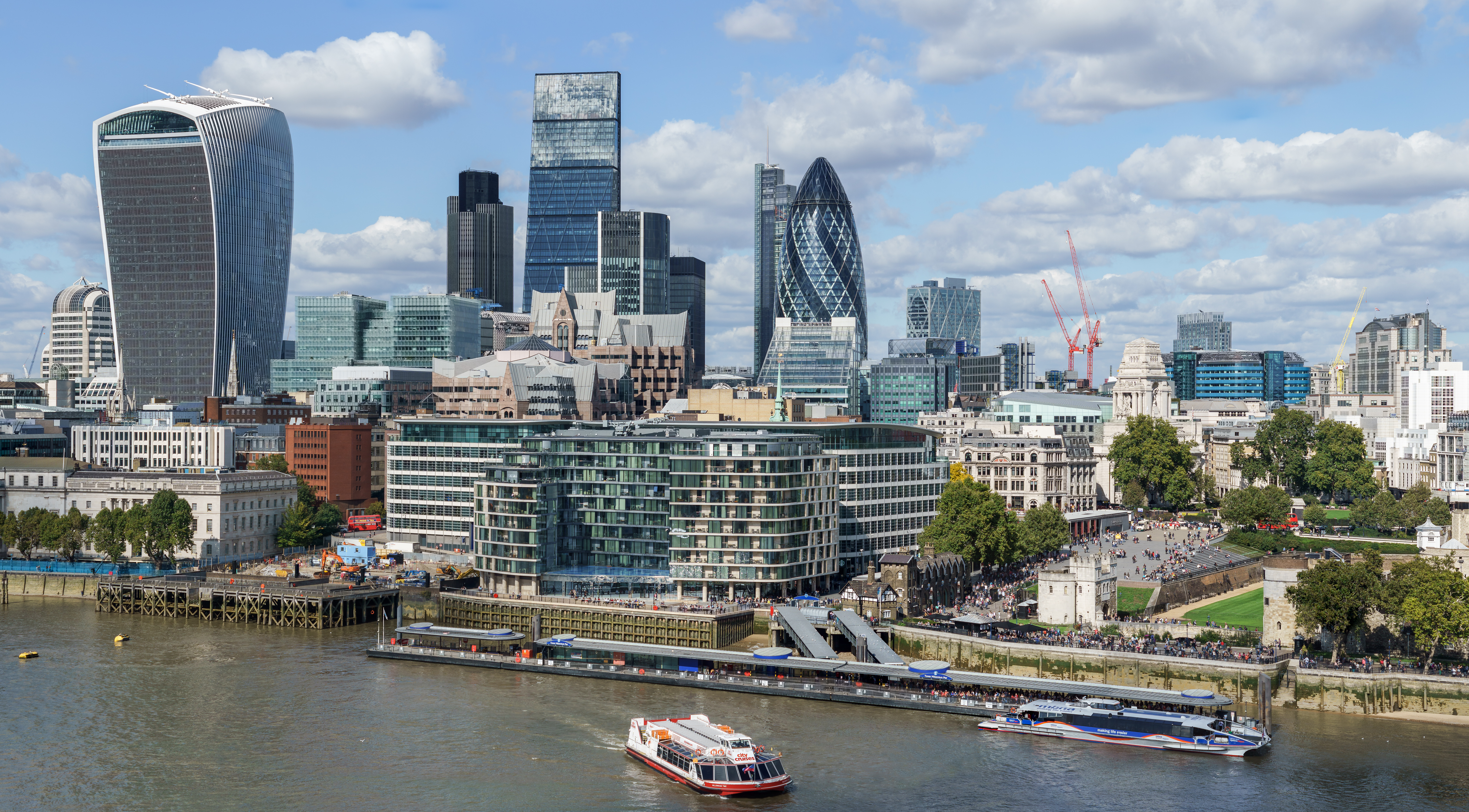 The City of London viewed from the balcony at City Hall.